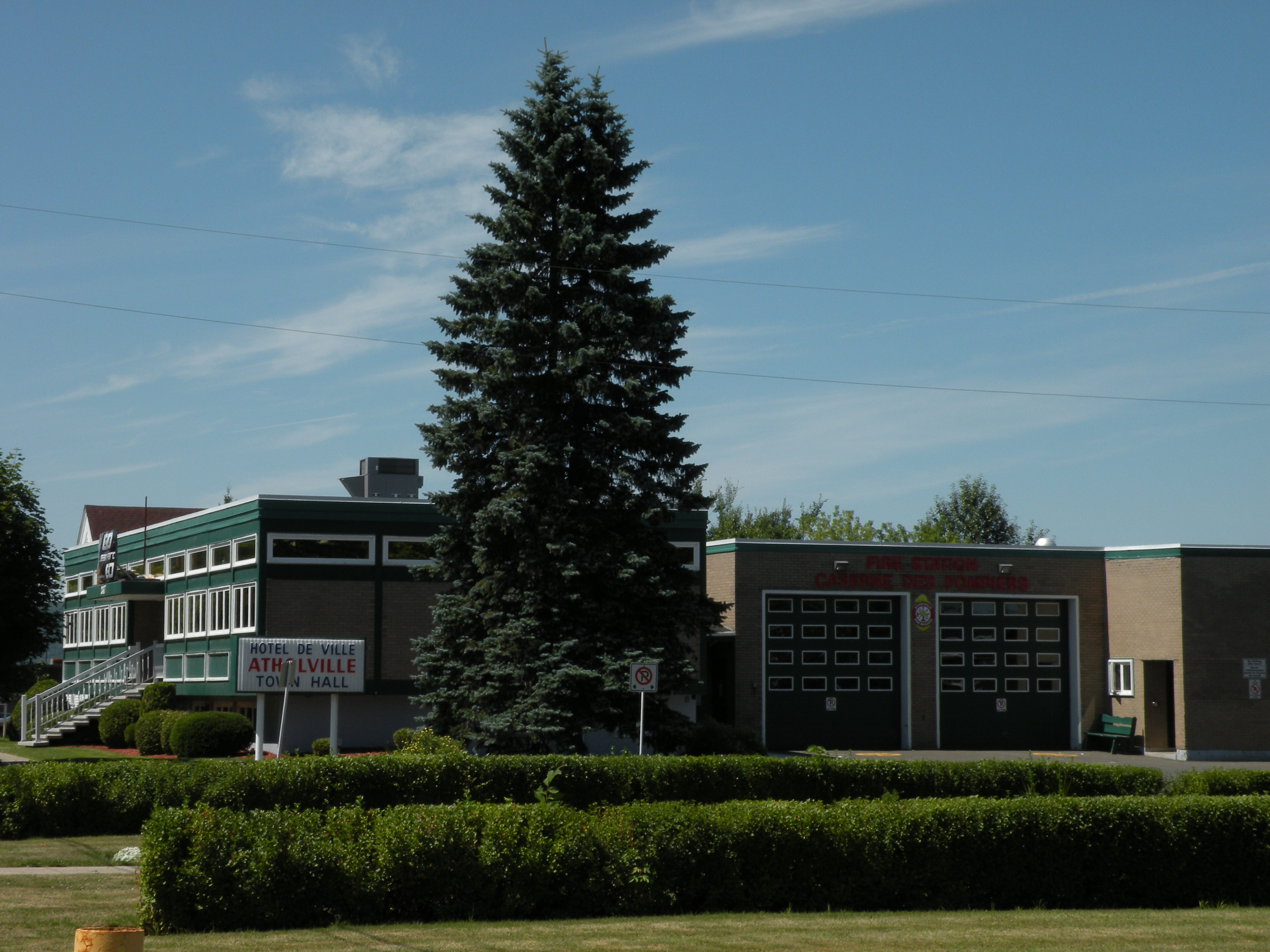 Atholville, New Brunswick, Canada